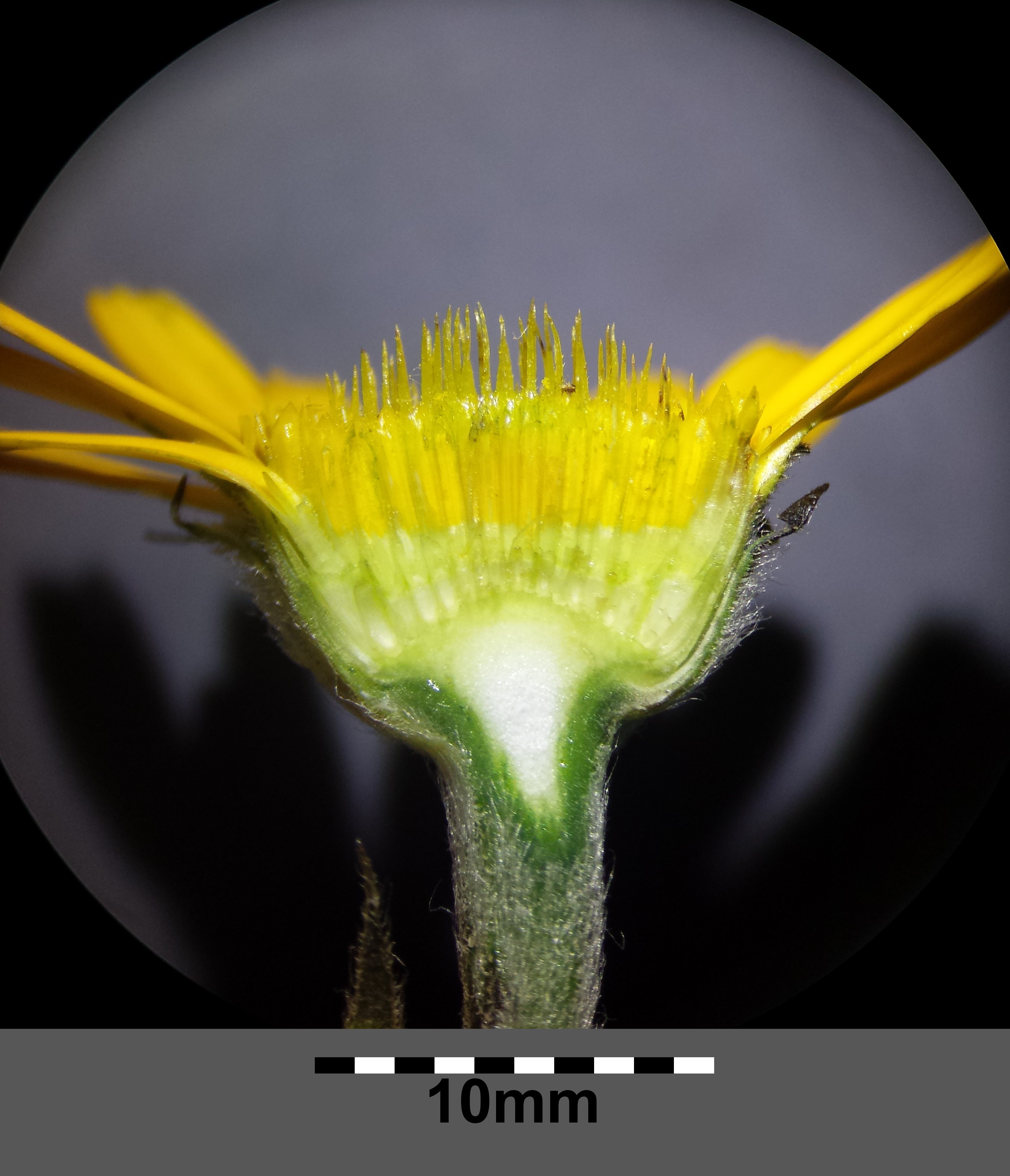 Flower basket, cut-through: disk florets and longer bracts Taxonym: Buphthalmum salicifolium ss Fischer et al. EfÖLS 2008 ISBN 978-3-85474-187-9 Location: Steinberg near Niederhollabrunn, district Korneuburg, Lower Austria - ca. 375 m a.s.l. Habitat: semi-dry grassland